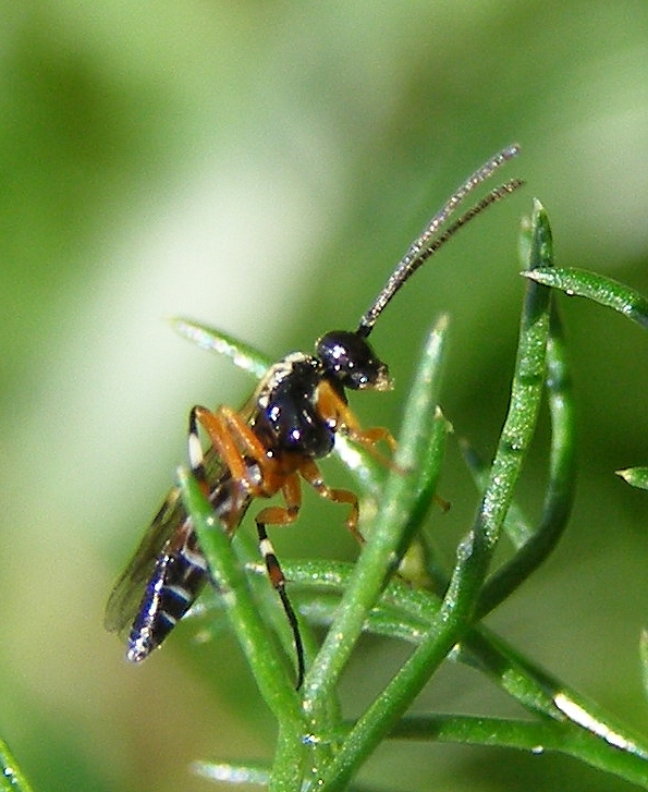 Diplazon laetatorius Zwakhals/Thirion ID